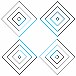 Square version of the neon spread illusion